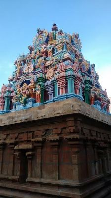 Thanjavur kaliammantemple(kalikaparamesvari temple) தஞ்சாவூர் காளியம்மன்கோயில் (காளிகாபரமேசுவரிகோயில்)